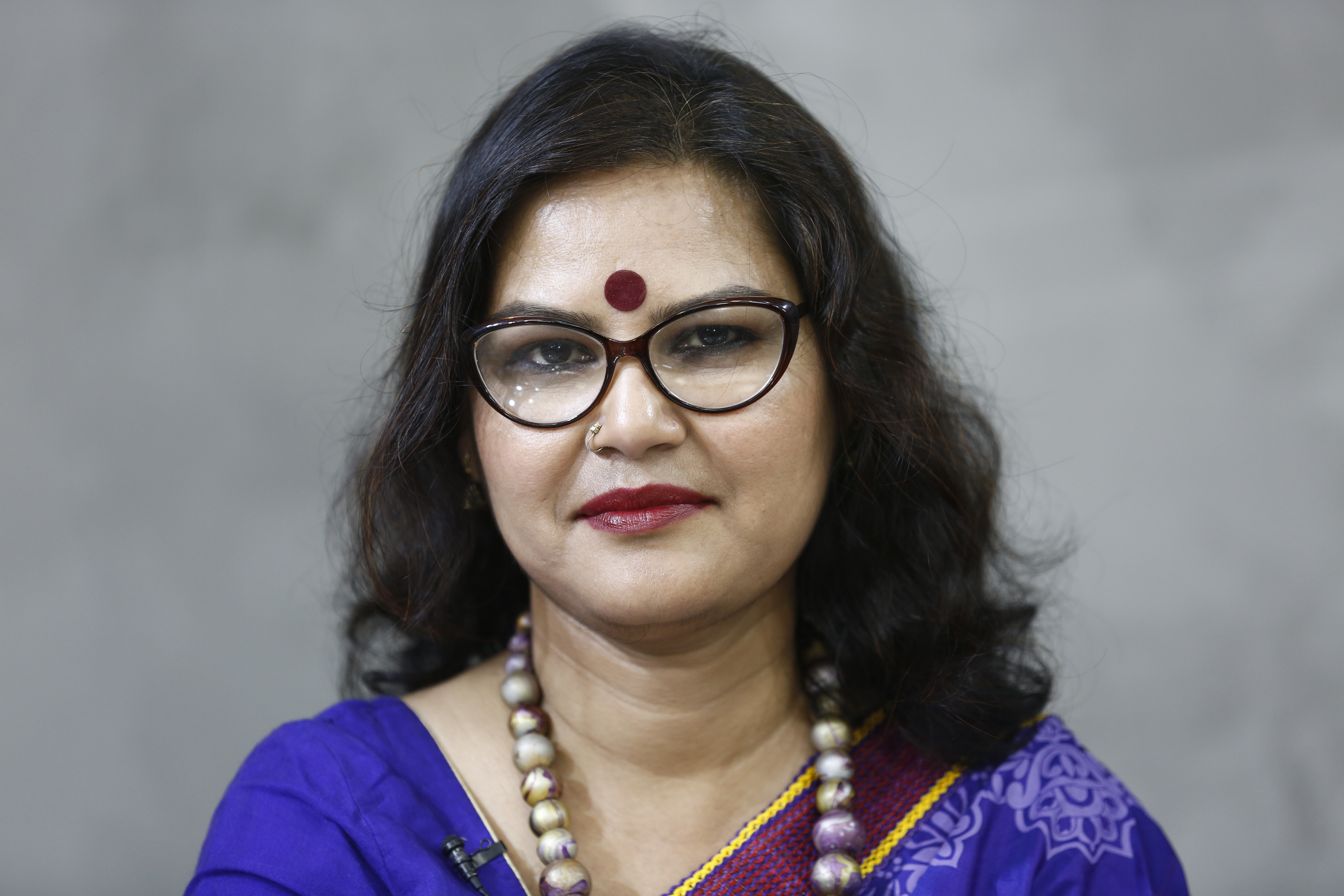 Shahnaz Munni, Bangladeshi journalist